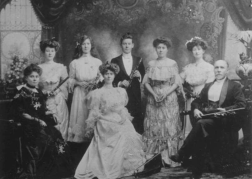 The Corrick Family Entertainers. Left to right: Sarah, Amy, Ruby, Alice, Leonard, Gertie, Ethel, Albert.